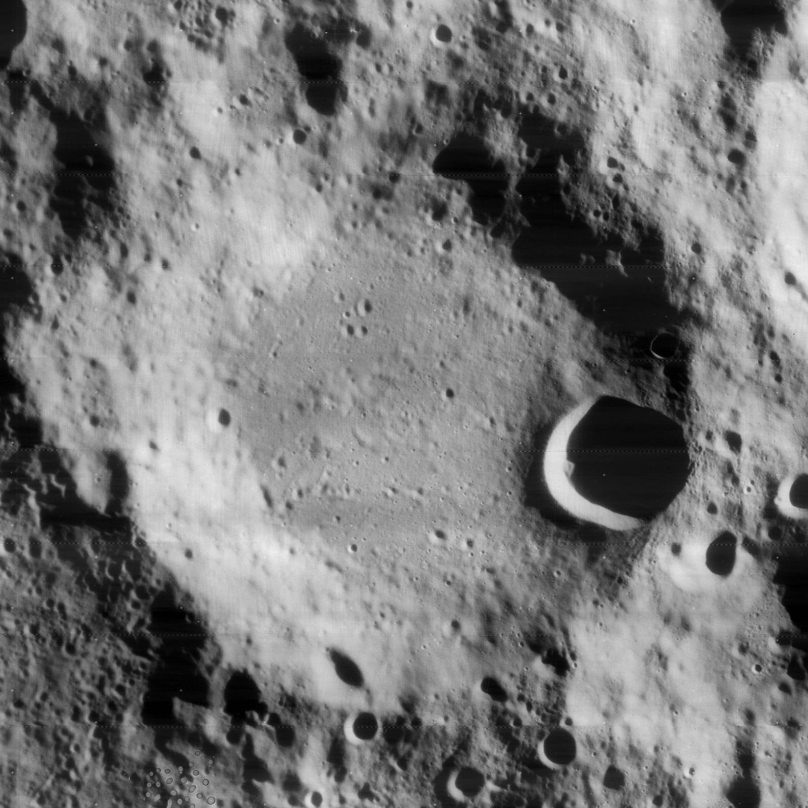 Boguslawsky, near the south pole of the moon, with north at the top.